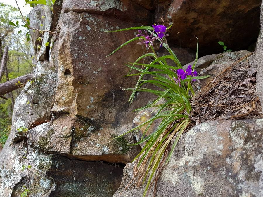 Tradescantia virginiana, Virginia spiderwort,, plant